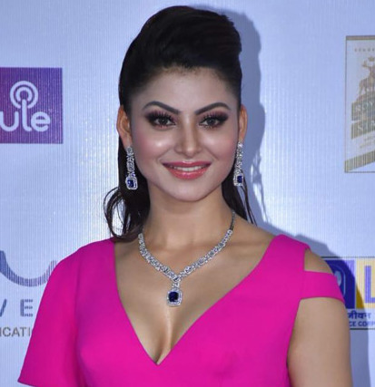 Urvashi Rautela at the 12th Radio Mirchi Music Awards 2020